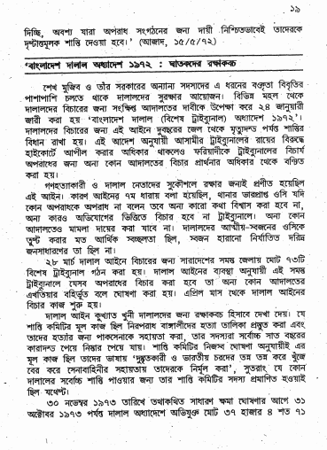 The Collaborators Act 1972 was termed as a safeguard to the killers by Ahmed Sharif, Shahriar Kabir and Quaji Nurujjaman